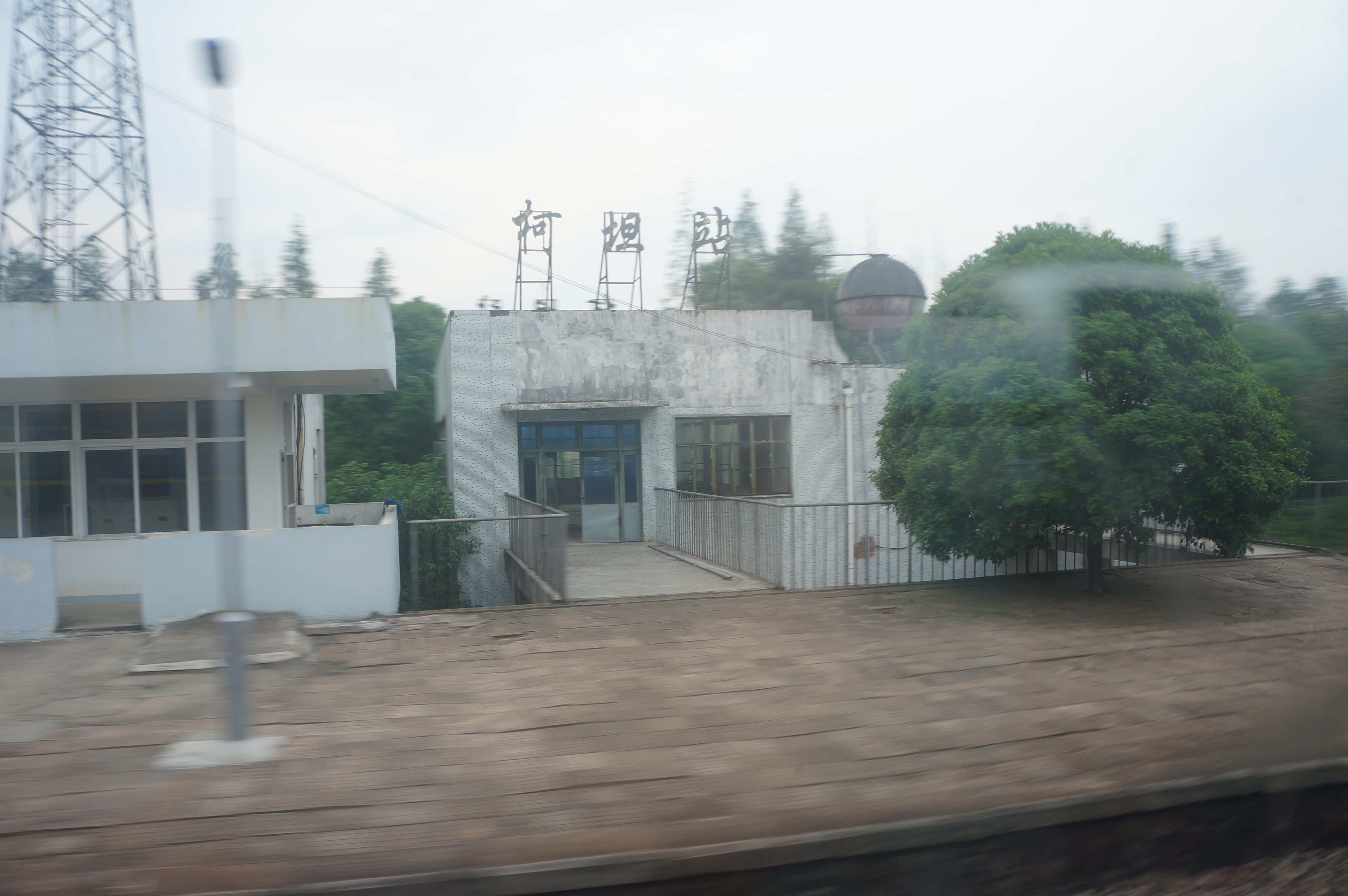 201705 Station building of Ketan Station